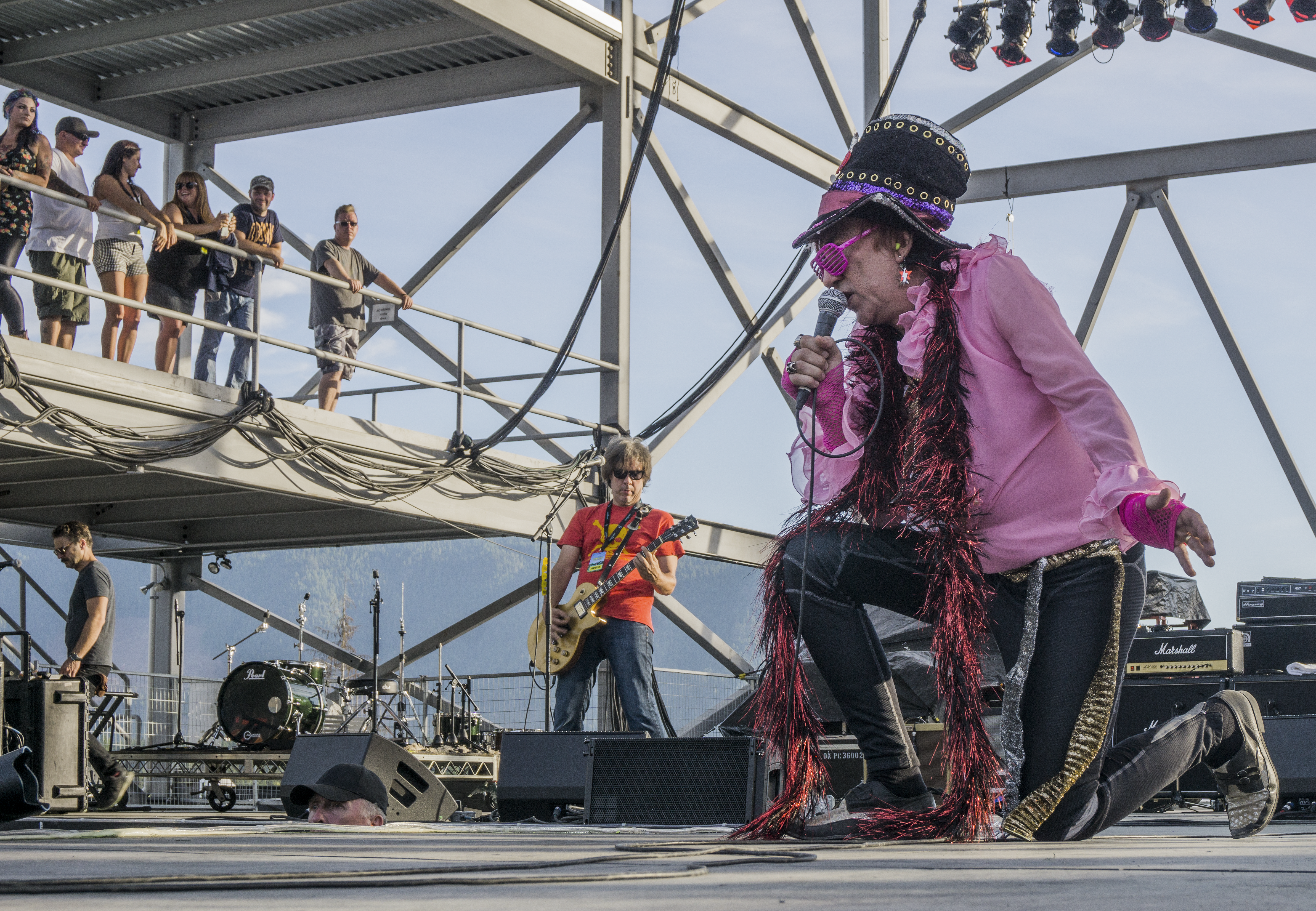 The Forgotten Rebels perform on stage at the Legends Valley Music Festival at Lake Cowichan, BC Canada on August 26, 2016. Jeff C and Mickey DeSadist of the band are pictured.